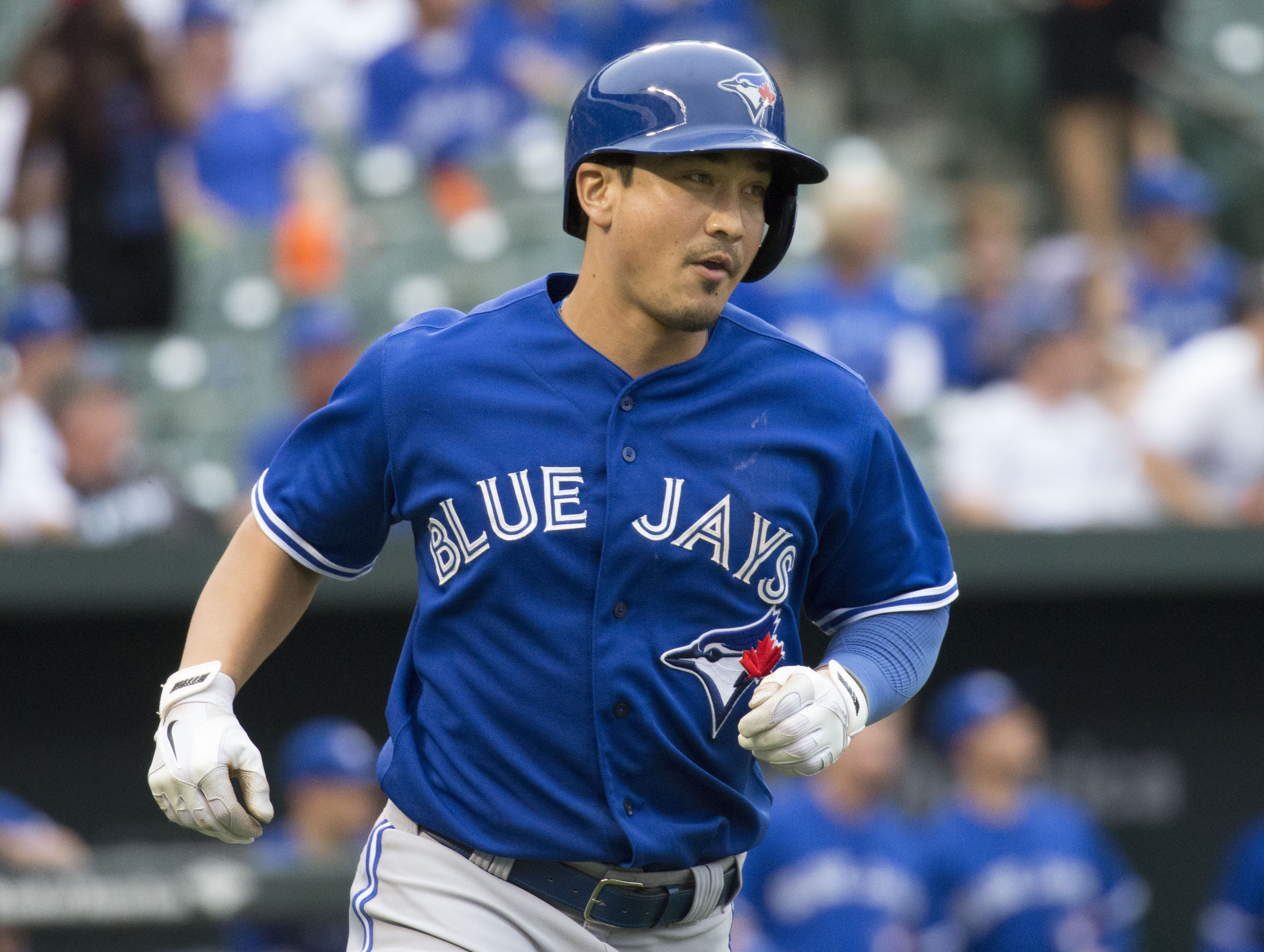 Darwin Barney on September 30, 2015